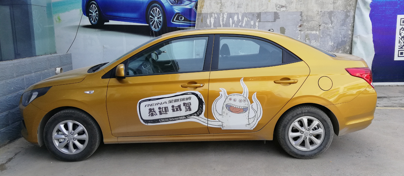 Hyundai Reina photographed in Zhengzhou, Henan province, China.